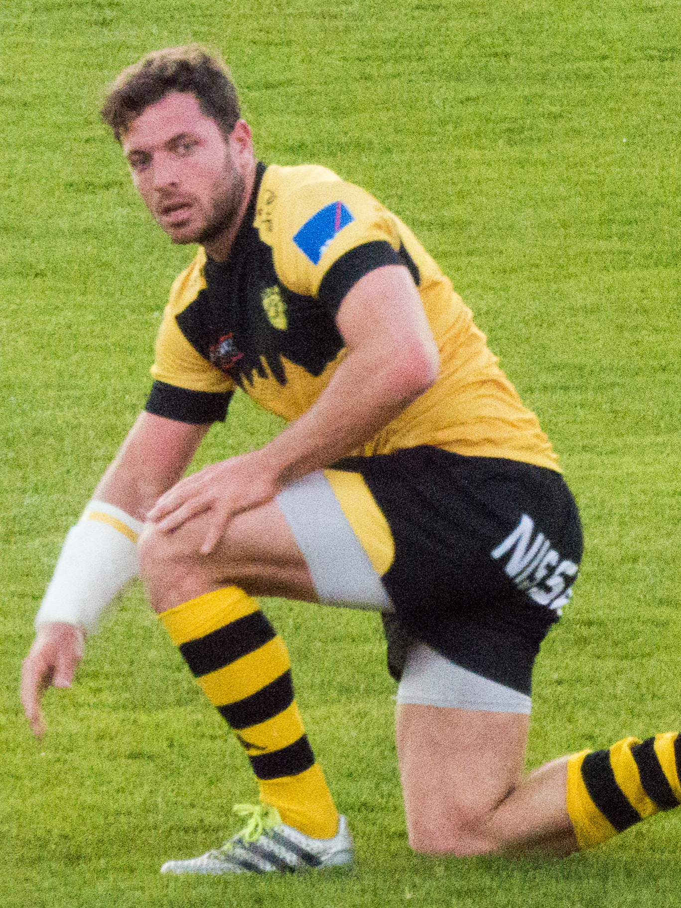 2016–17 Rugby Pro D2 season — 7 April 2017, Stade Maurice Boyau. Match between: US Dax — US Carcassonne